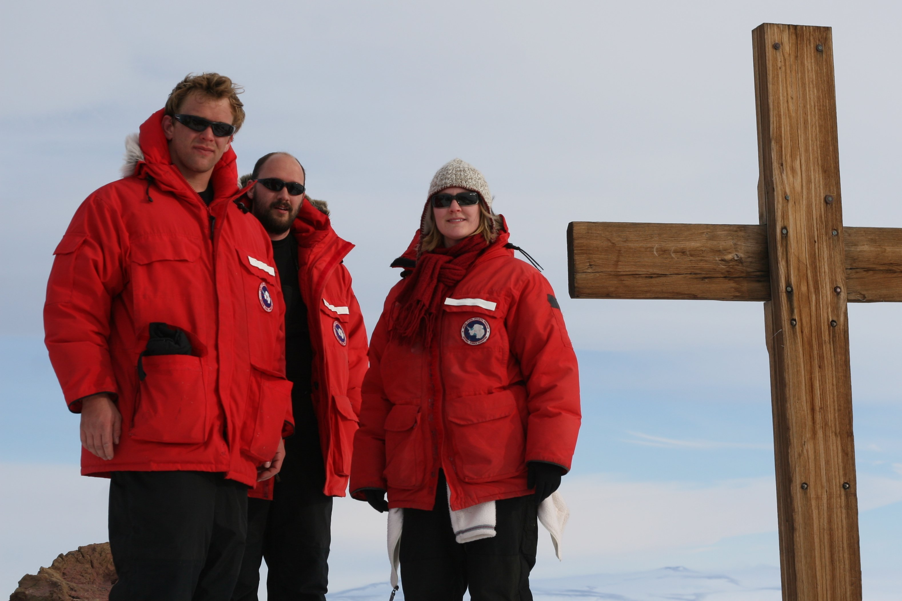 On the summit of Observation Hill on Ross Island, Antarctica.